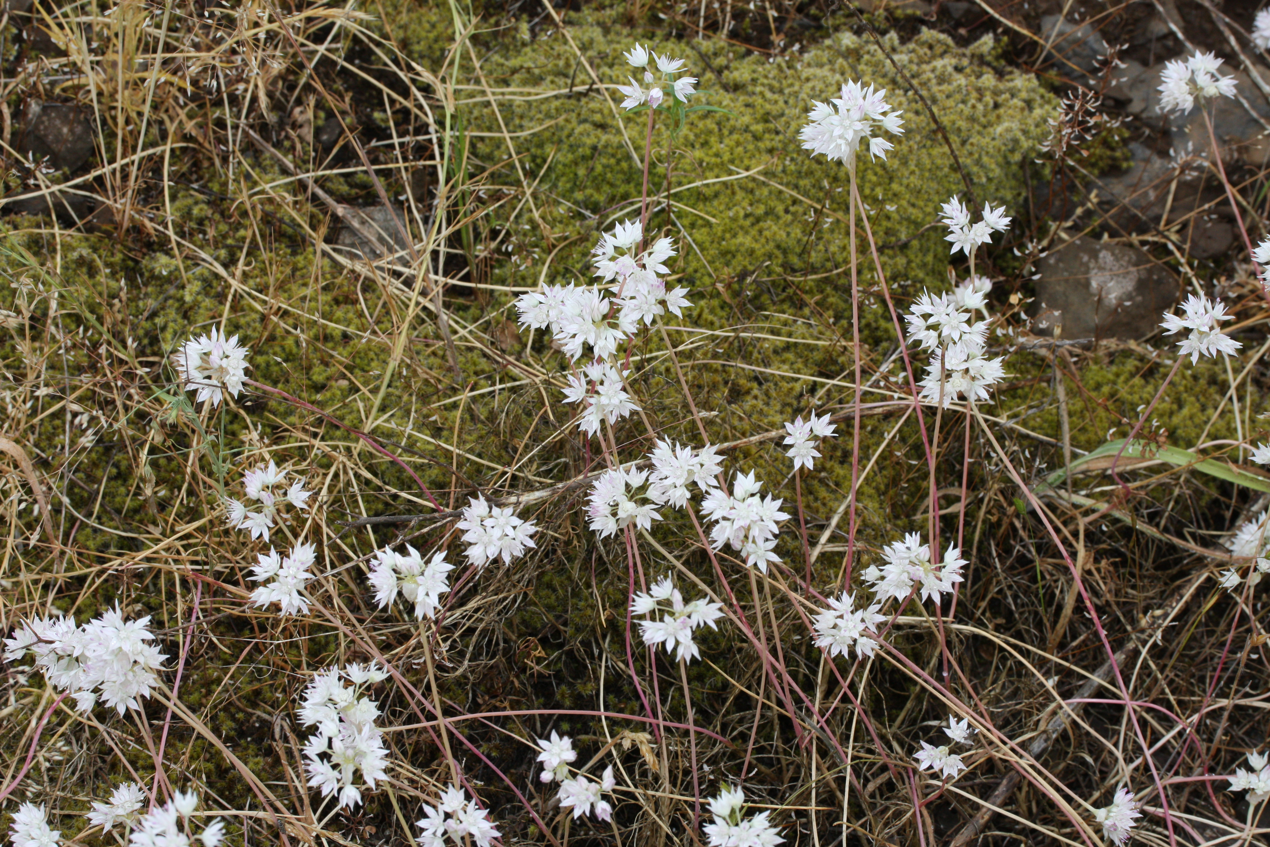 Narrow-leaf Onion